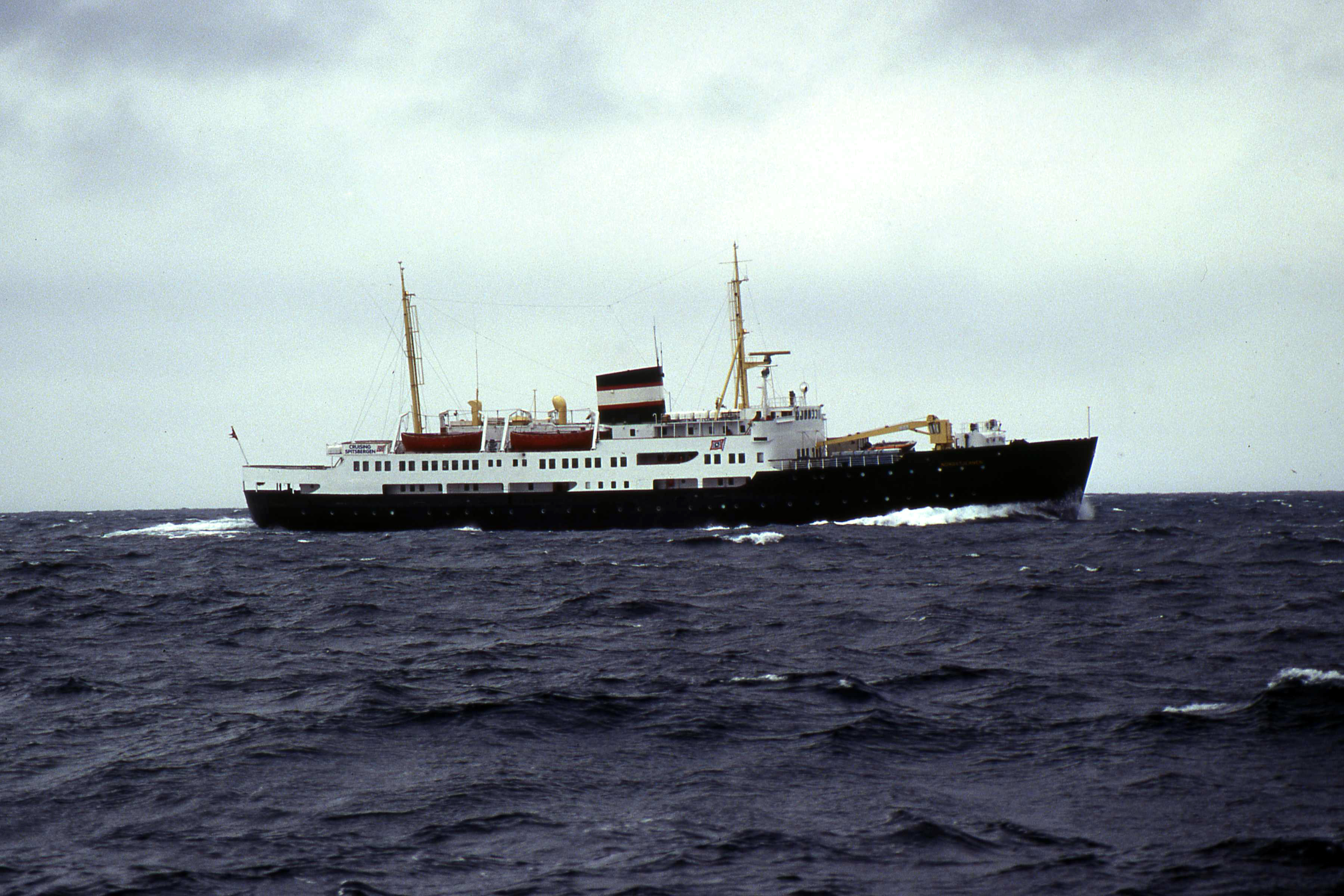 Hurtigruten ship Nordstjernen seen between Bodø and Spitsbergen on a cruise to Spitsbergen.